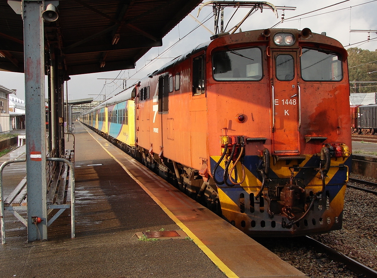 SAR Class 6E1 Series 4 E1448 at Klerksdorp station, North West Province